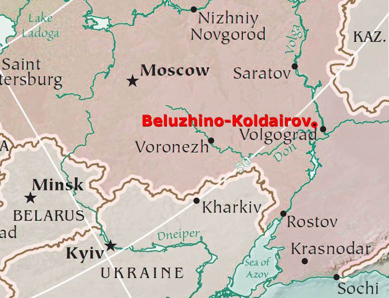 Beluzhino-Koldairov, Белужино-Колдаиров, shown on a map of Southwestern Russia and surrounding countries.